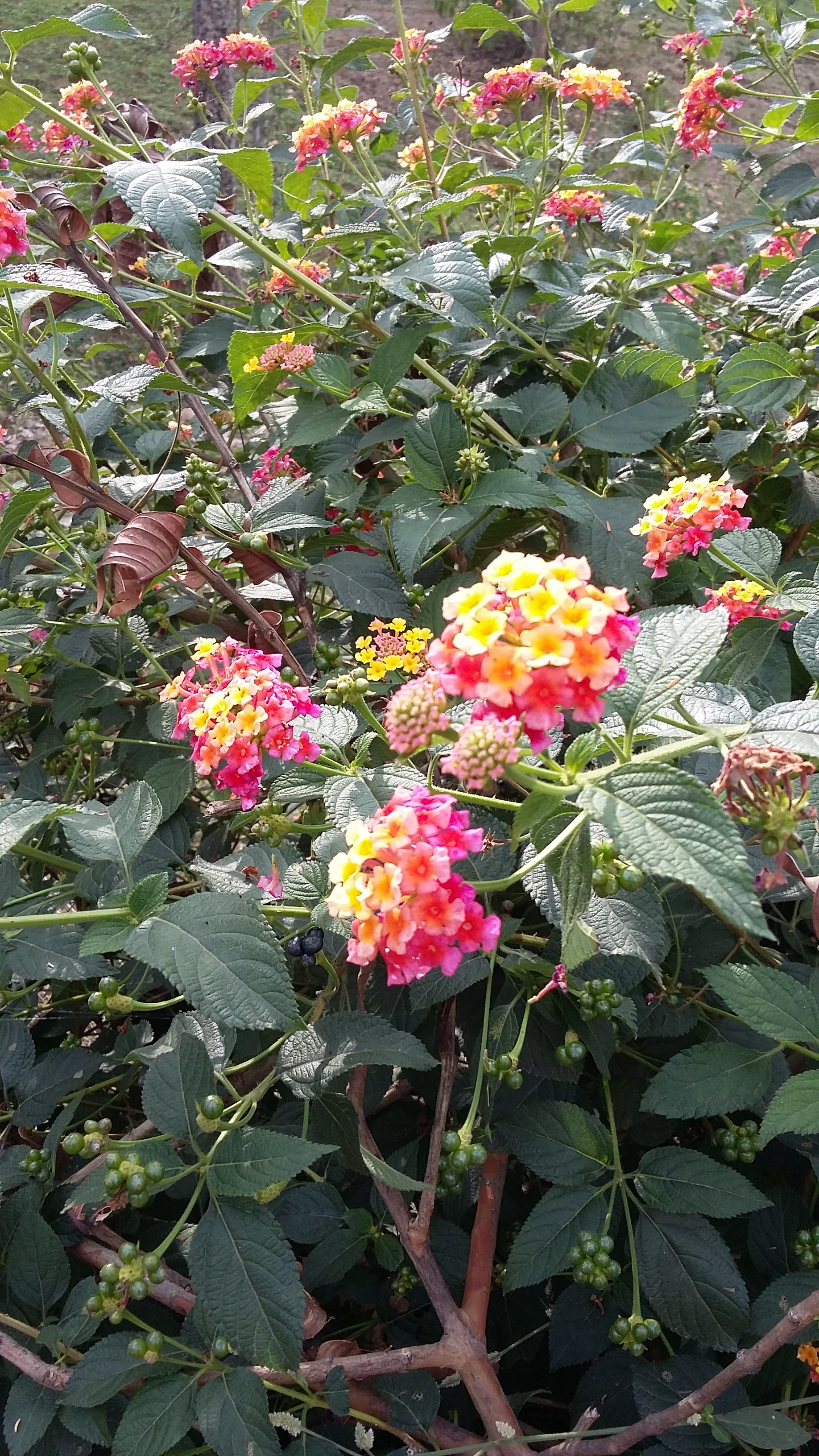 witches flowers ਪੰਜਾਬੀ: ਡੈਣਾ ਦੇ ਫੁਲ